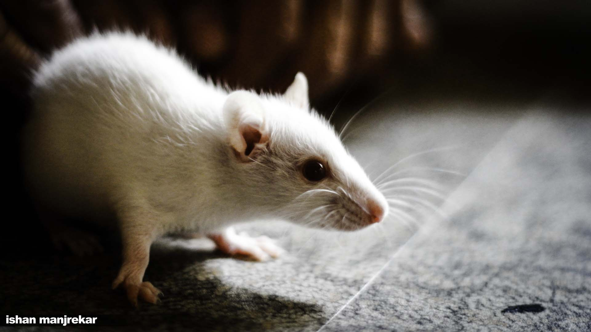 A white mouse